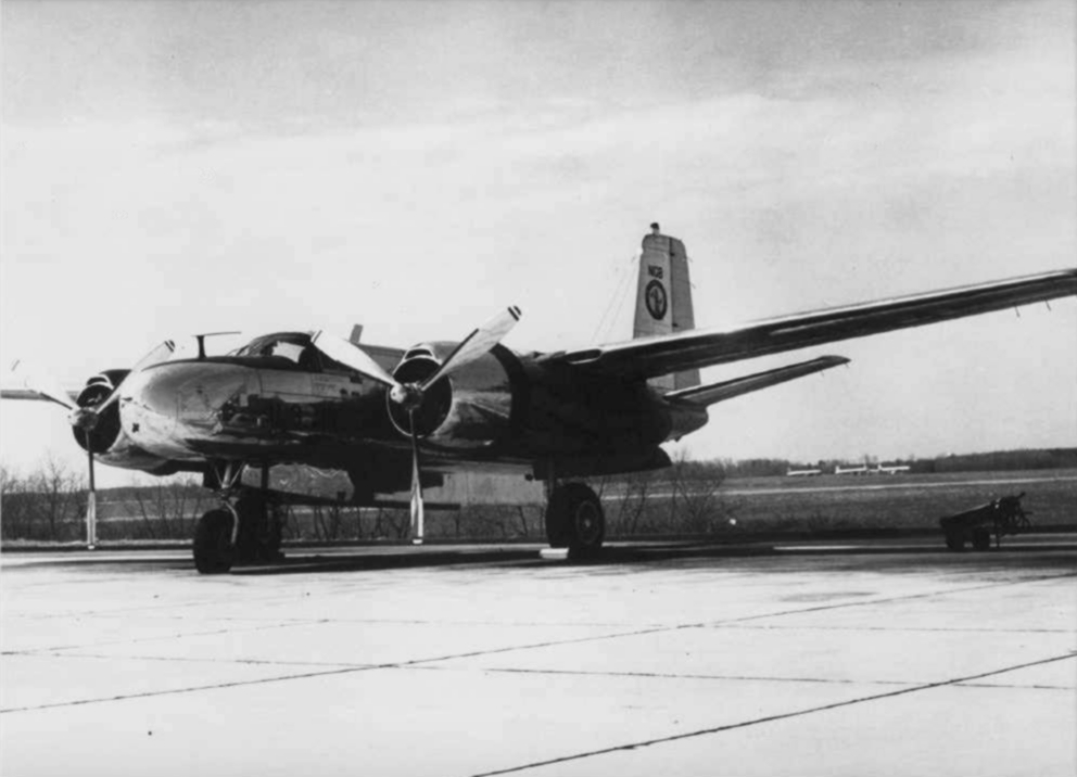 A U.S. Air Force Douglas B-26 Invader (probably a TB-26B or VB-26B) of the 113th Wing, District of Columbia Air National Guard. This type was flown by the DC ANG from 1951-1972(?).